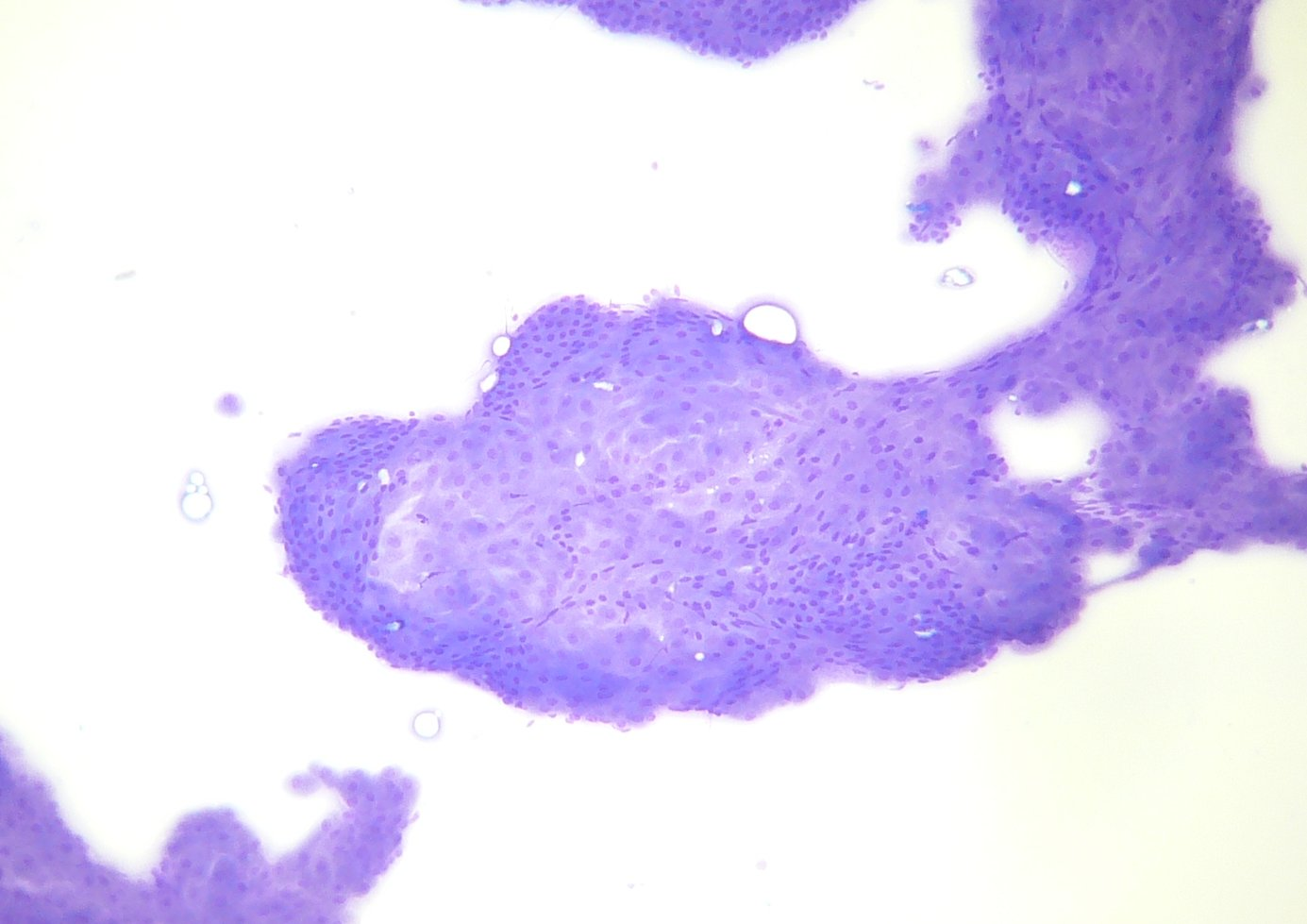 Cytology from a needle aspiration biopsy of a perianal gland tumor of a dog. Slide was stained with a modified Wright's stain. Magnification is 400X.